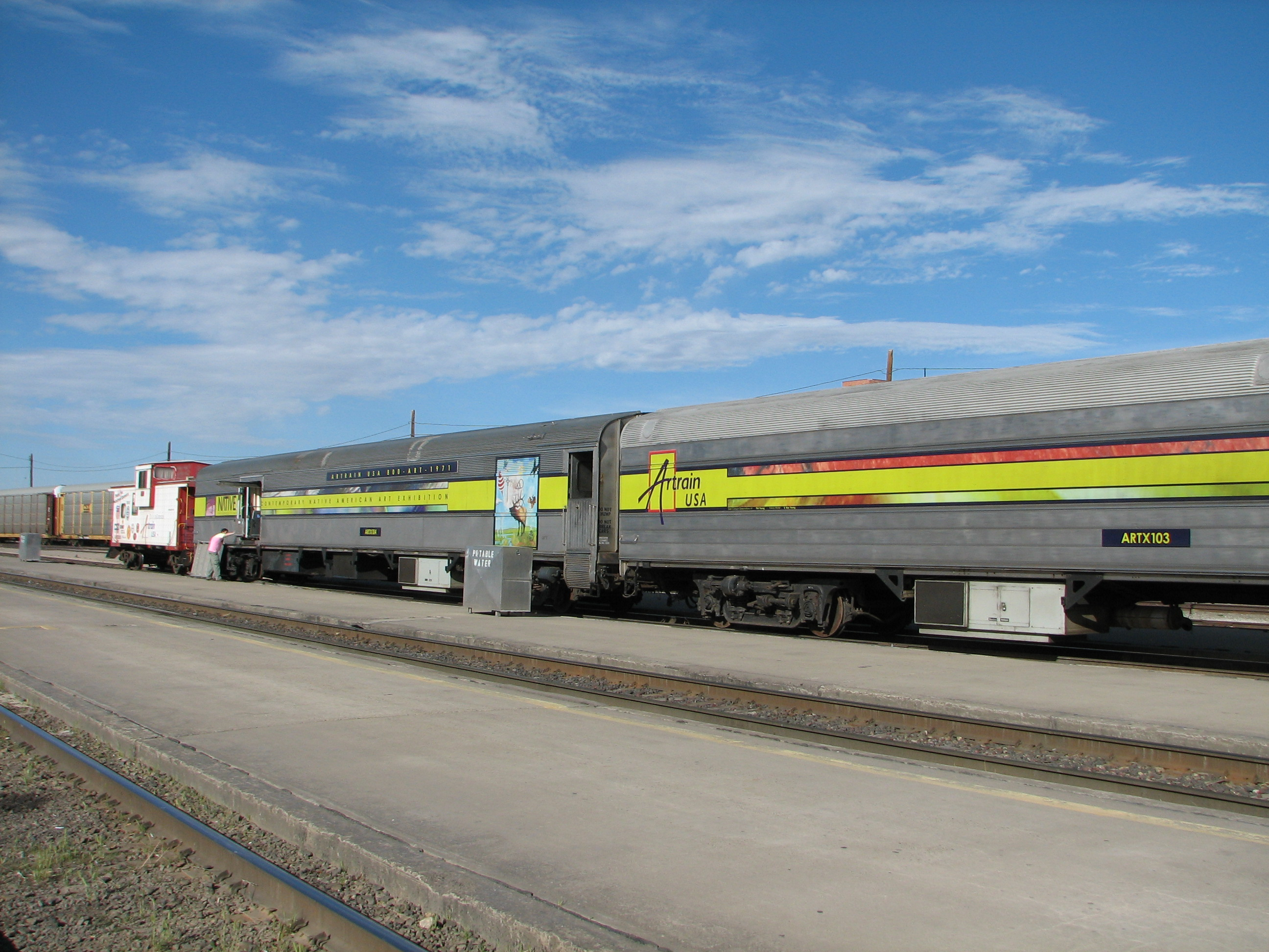 The Artrain at Albuquerque, New Mexico in March 2006